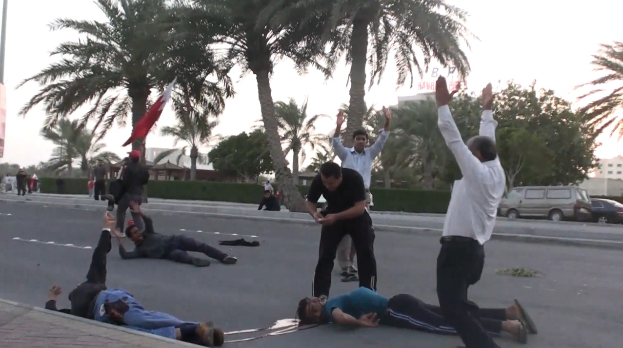 Protester Abdulredha Buhmaid on floor bleeding from his head after army opened fire